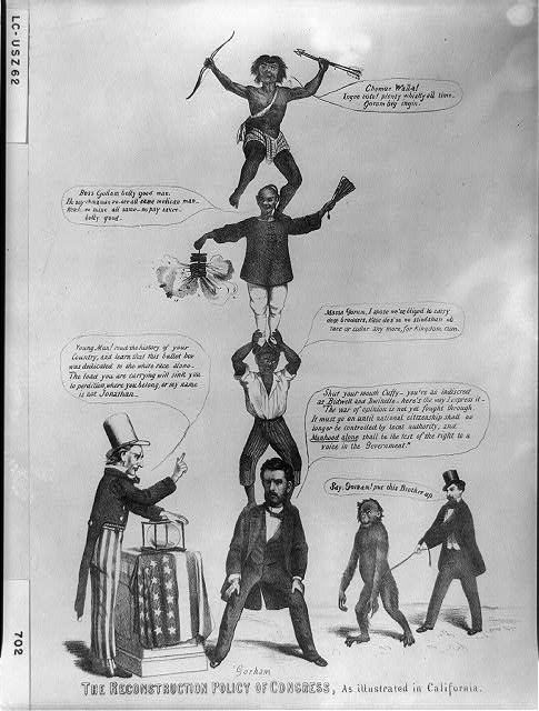 Satirizes California Republican gubernatorial nominee George C. Gorham and idea that Africans, Asians, and Indians should have voting rights. Used by Democratic Party to gain office.